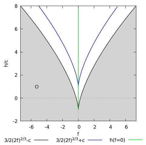 Bifurcation diagram of a Goryachev-Chaplygin top